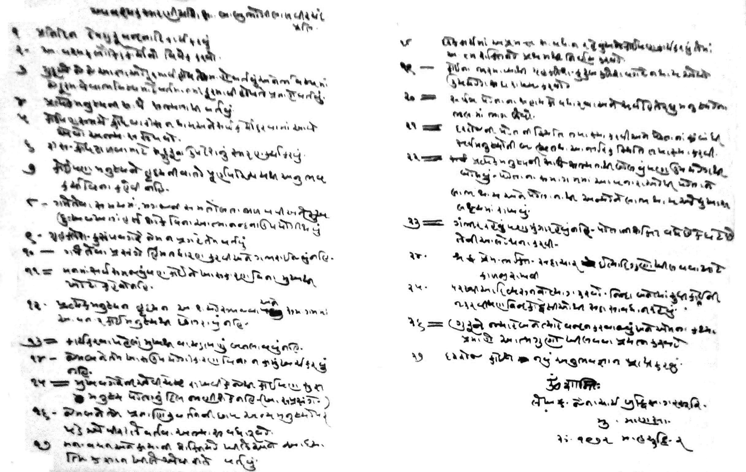 Handwritten Text of Buddhisagar Suri, Jain monk. Text seen at Mahavirdham near Mumbai, Maharashtra, India. It lists rules to be followed by Jain lay men. Gujarati language script. Samvat 1972 (1915 AD approx.)